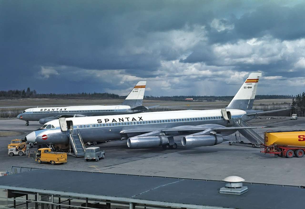 EC-BNM (cn 30-10-32) EC-BJD in background. Stockholm - Arlanda (ARN / ESSA) Sweden, April 1968 EC-BNM crashed at Arlanda 1970 jan. 5